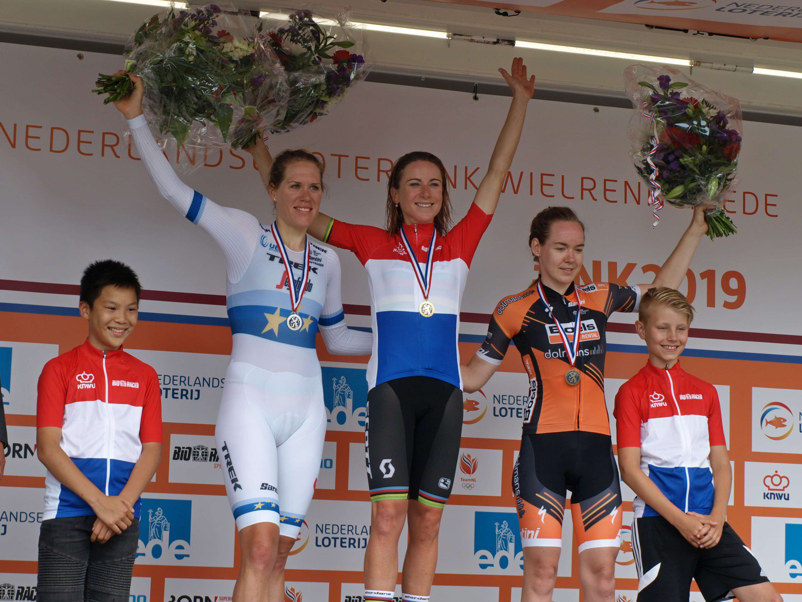 Dutch Championship Cycling 2019 Time Trial Women. Left:Ellen van Dijk (silver). Center: Annemiek van Vleuten (gold). Right: Anna van der Breggen (bronze).